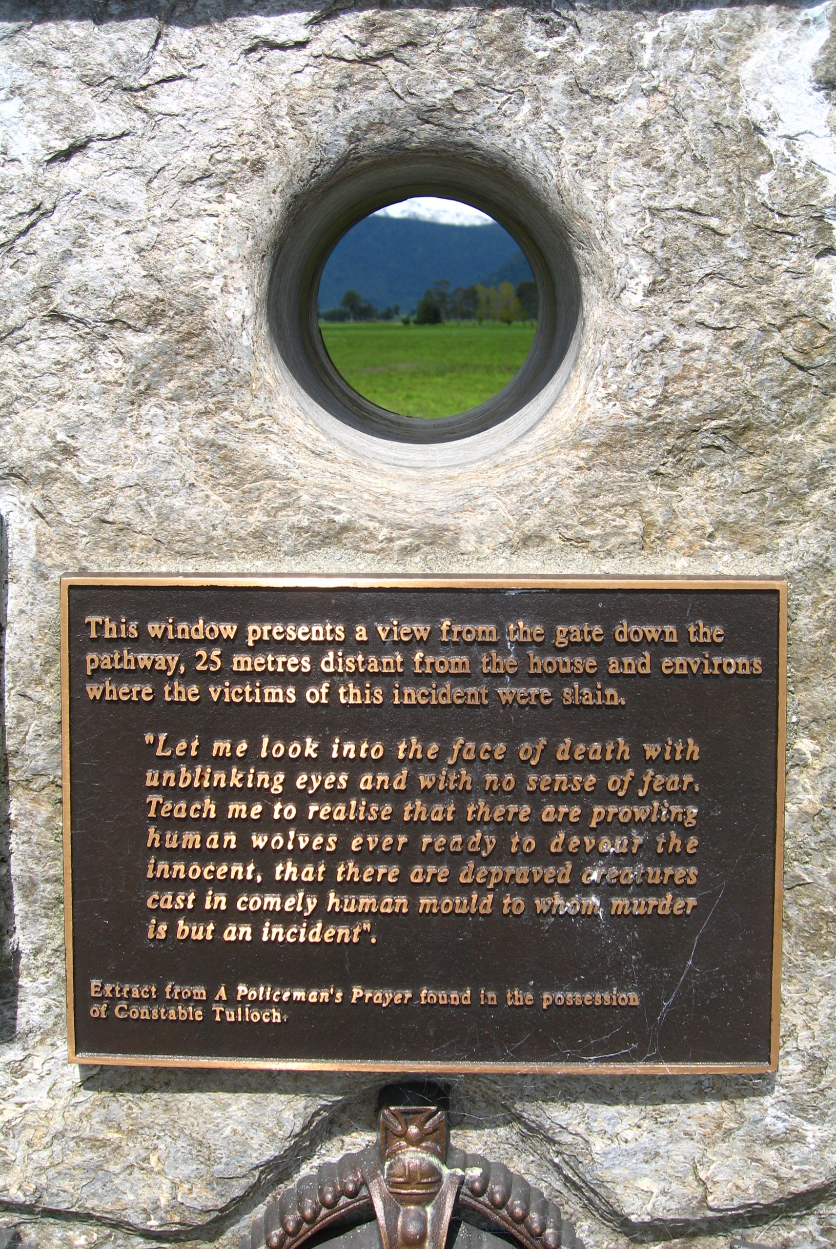 Detail from the memorial for the Koiterangi Incident, Kowhitirangi, West Coast of New Zealand. The memorial is mounted on a rock from nearby Diedrich's Creek, and was unveiled on 8 October 2004. The artist was Barry Thomson of Glenavy.